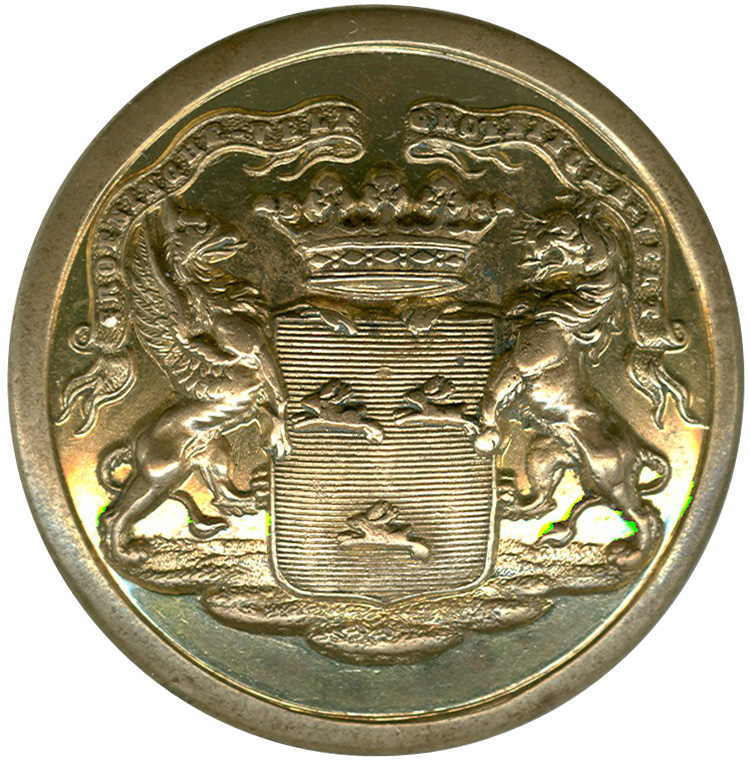 coachman's livery button, Borluut family coat of arms